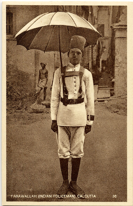 Calcutta policeman